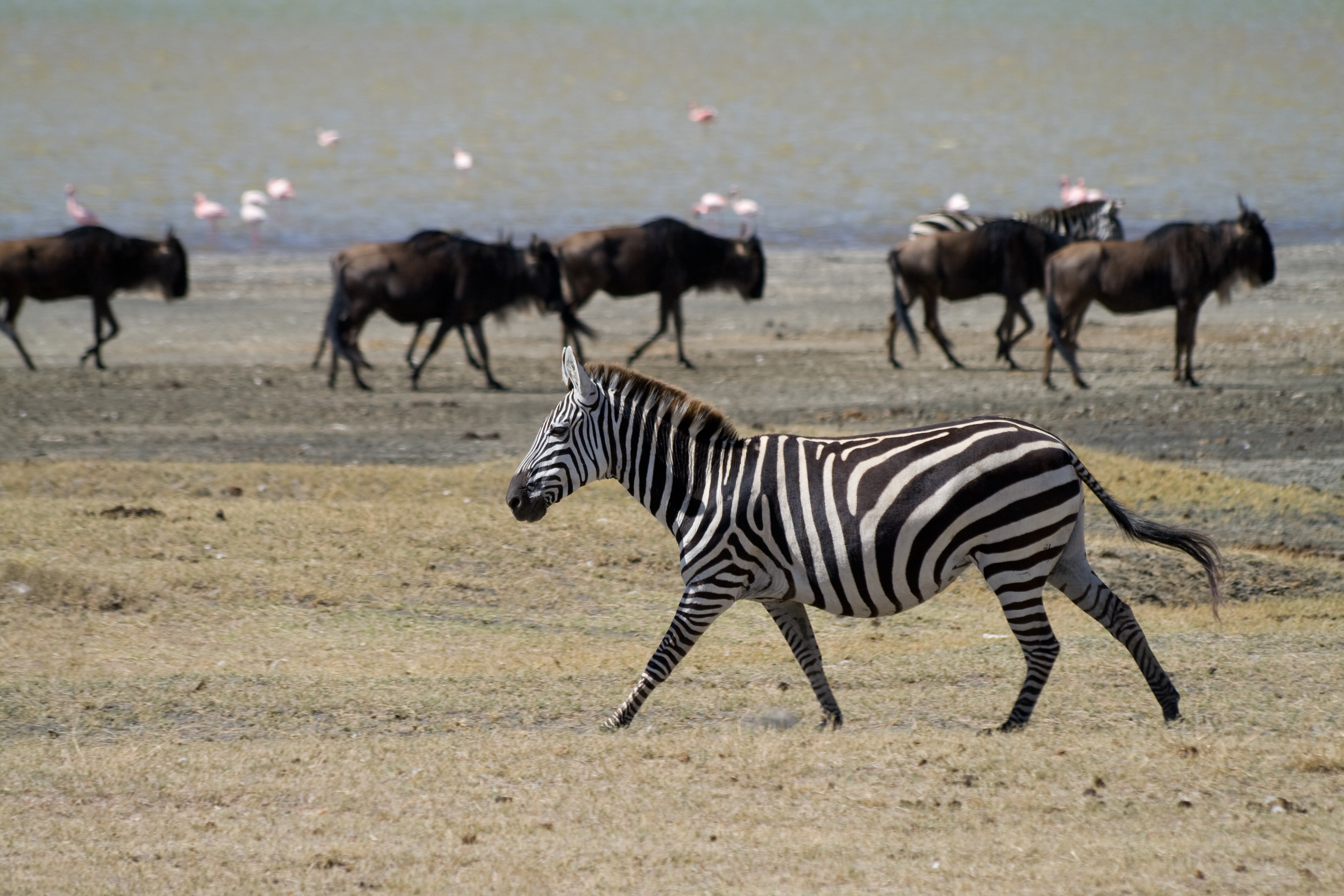 A Plains Zebra in Tanzania.